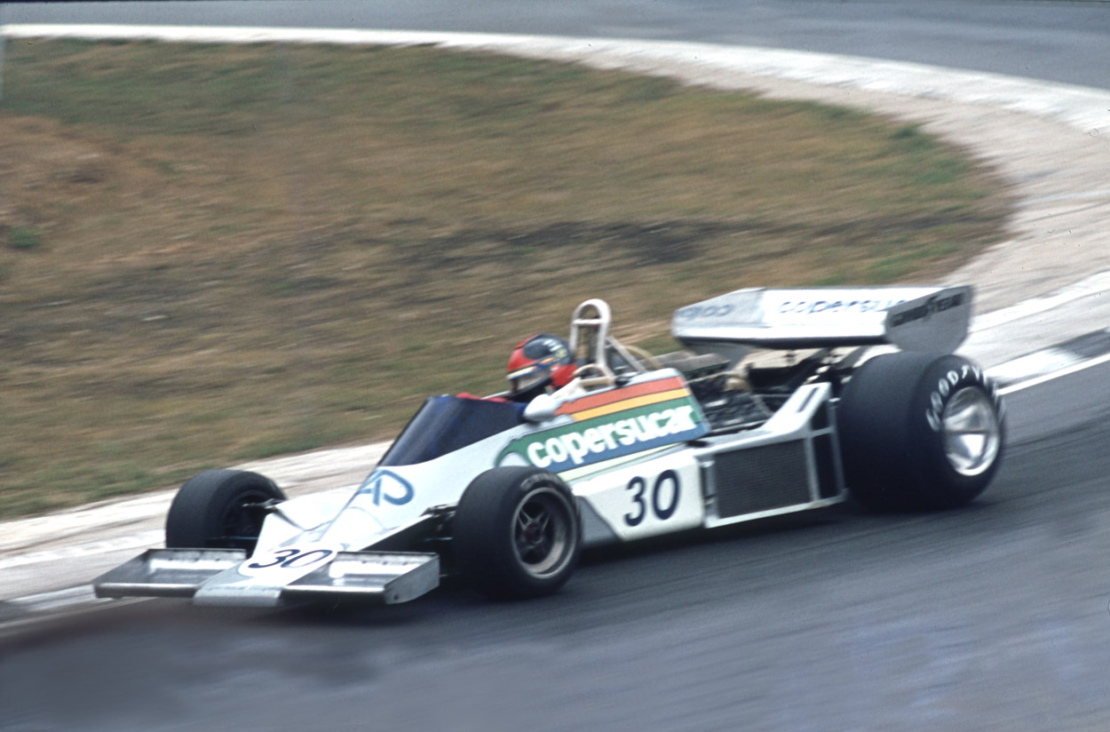 Emerson Fittipaldi taking Stowe at Brands Hatch 1976